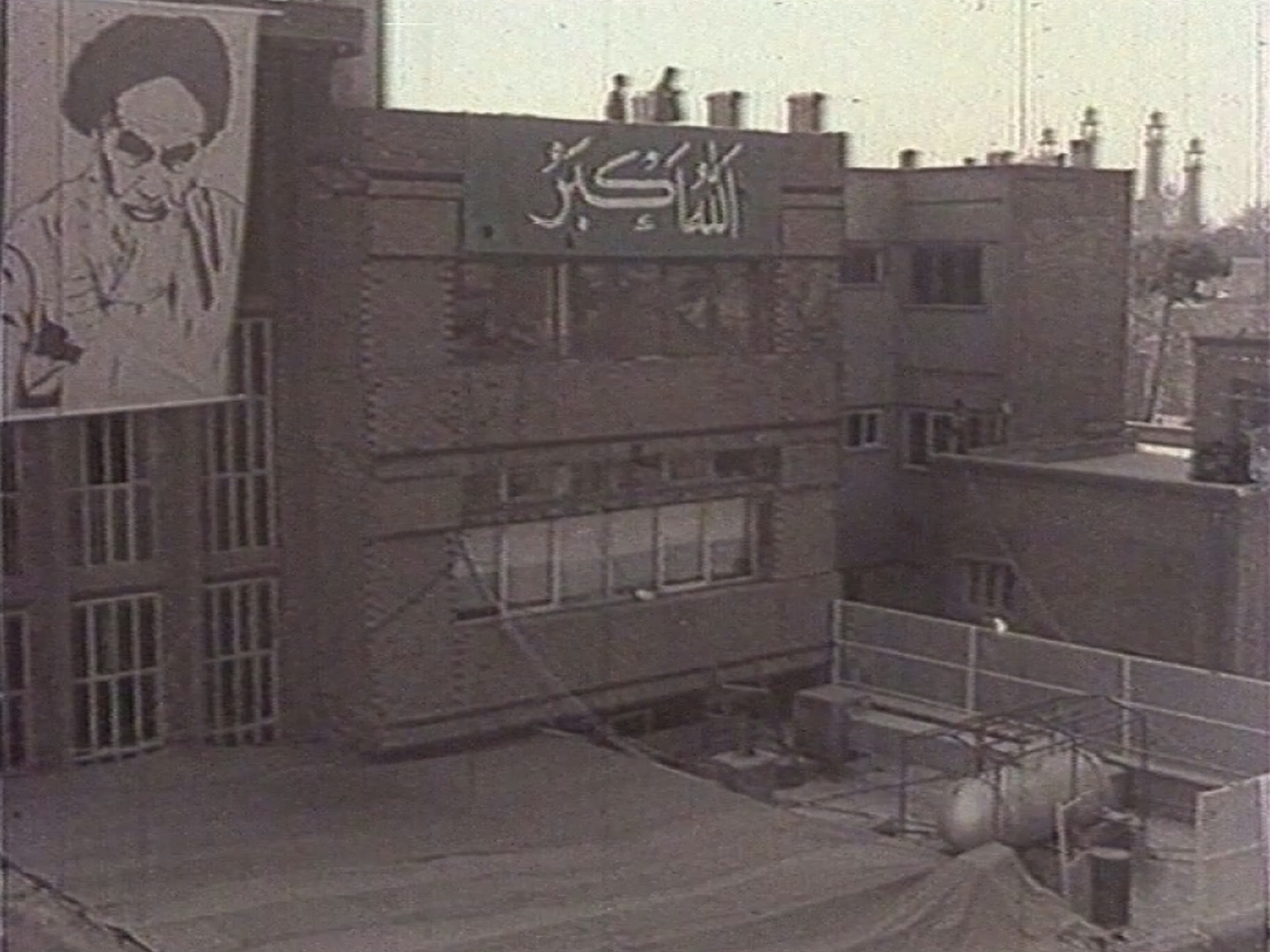 refah-school view in 1979 with poster of Khomeini